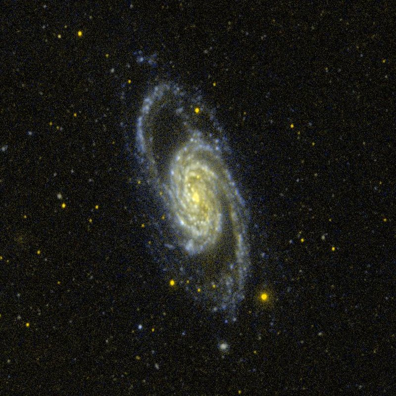 NGC 2903 galaxy on GALEX sky survey